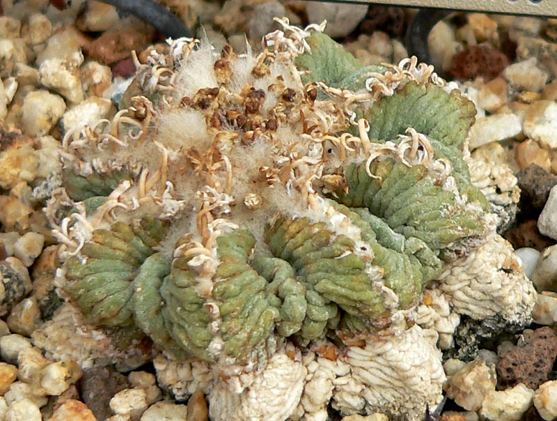 Photo of Aztekium ritteri at the University of California Botanical Garden